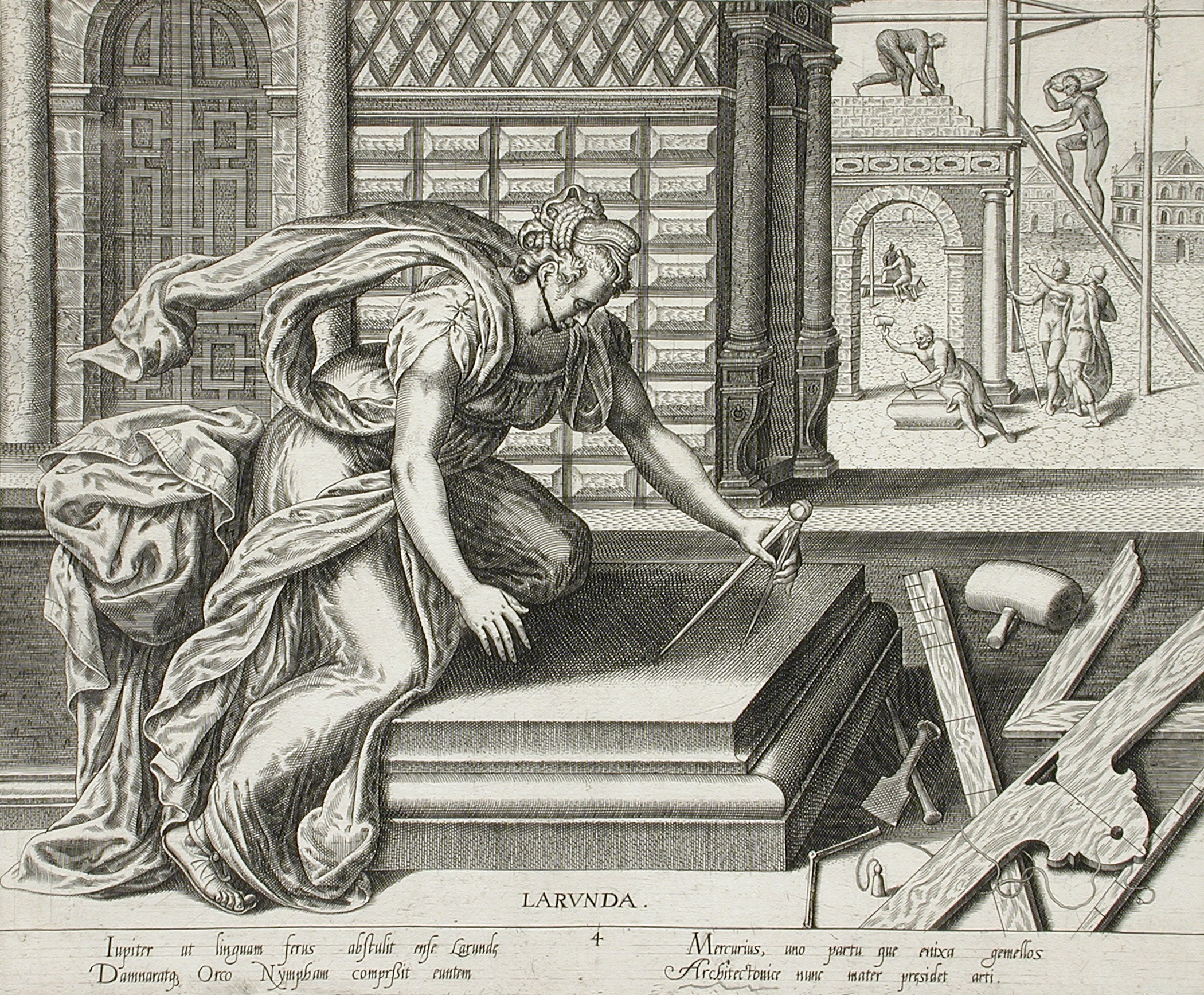 Holland, 1574 Series: Personifications of Industrial and Professional Life, pl. 4 Prints; engravings Engraving Gift of David and Frances Elterman through the Graphic Arts Council (M.79.120.3) Prints and Drawings